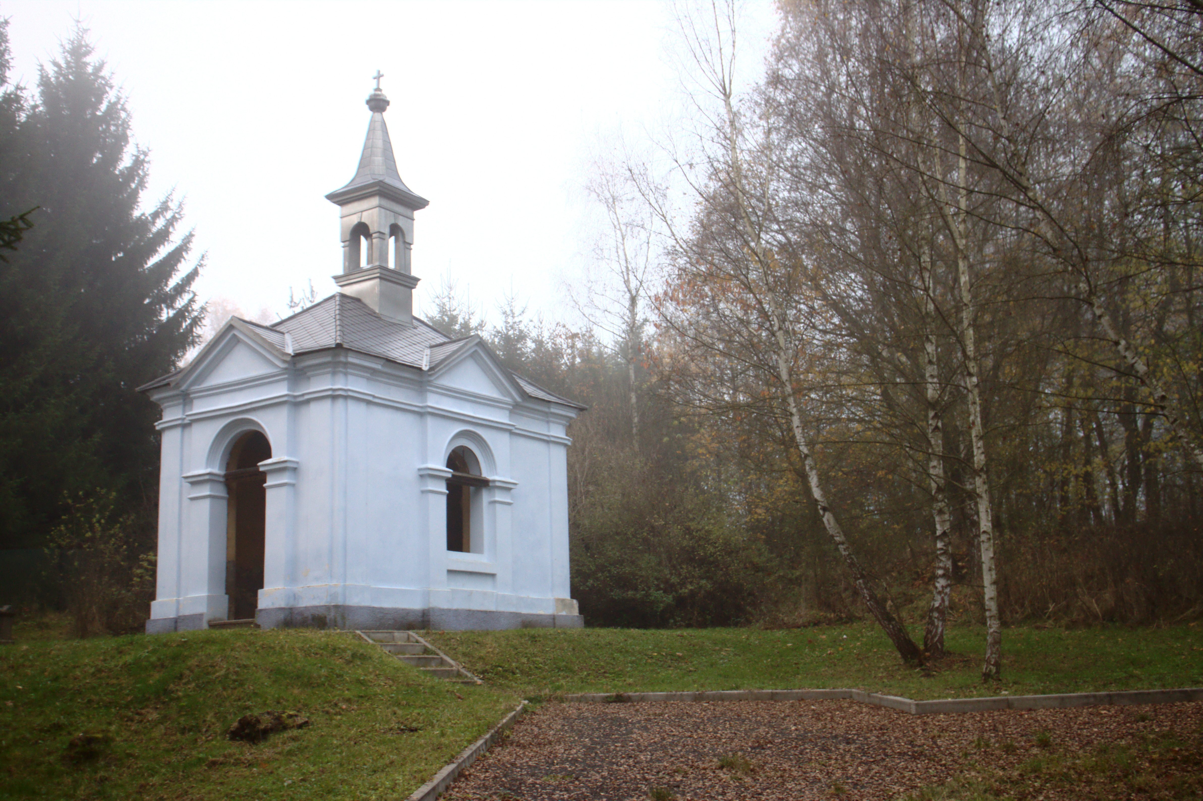 A renewed chapel in the village of Lachovice near Toužim, CZ